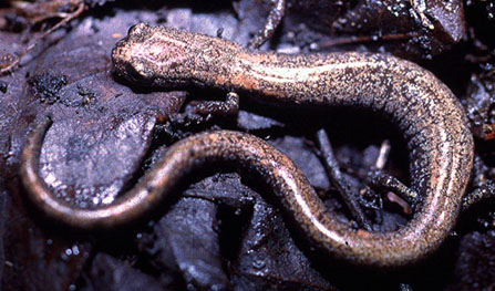 Batrachoseps gabrieli - San Gabriel Mountain Slender Salamander